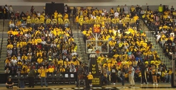 West Side Rowdies spelling out VIRGINIA COMMONWEALTH! The East Side is home to most of the Rowdies.